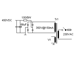 Tube power rectifier